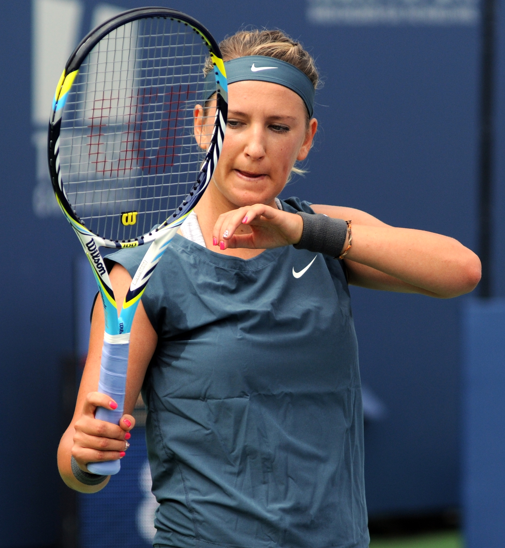 Victoria Azarenka - 2nd Round 2013 Southern California Open